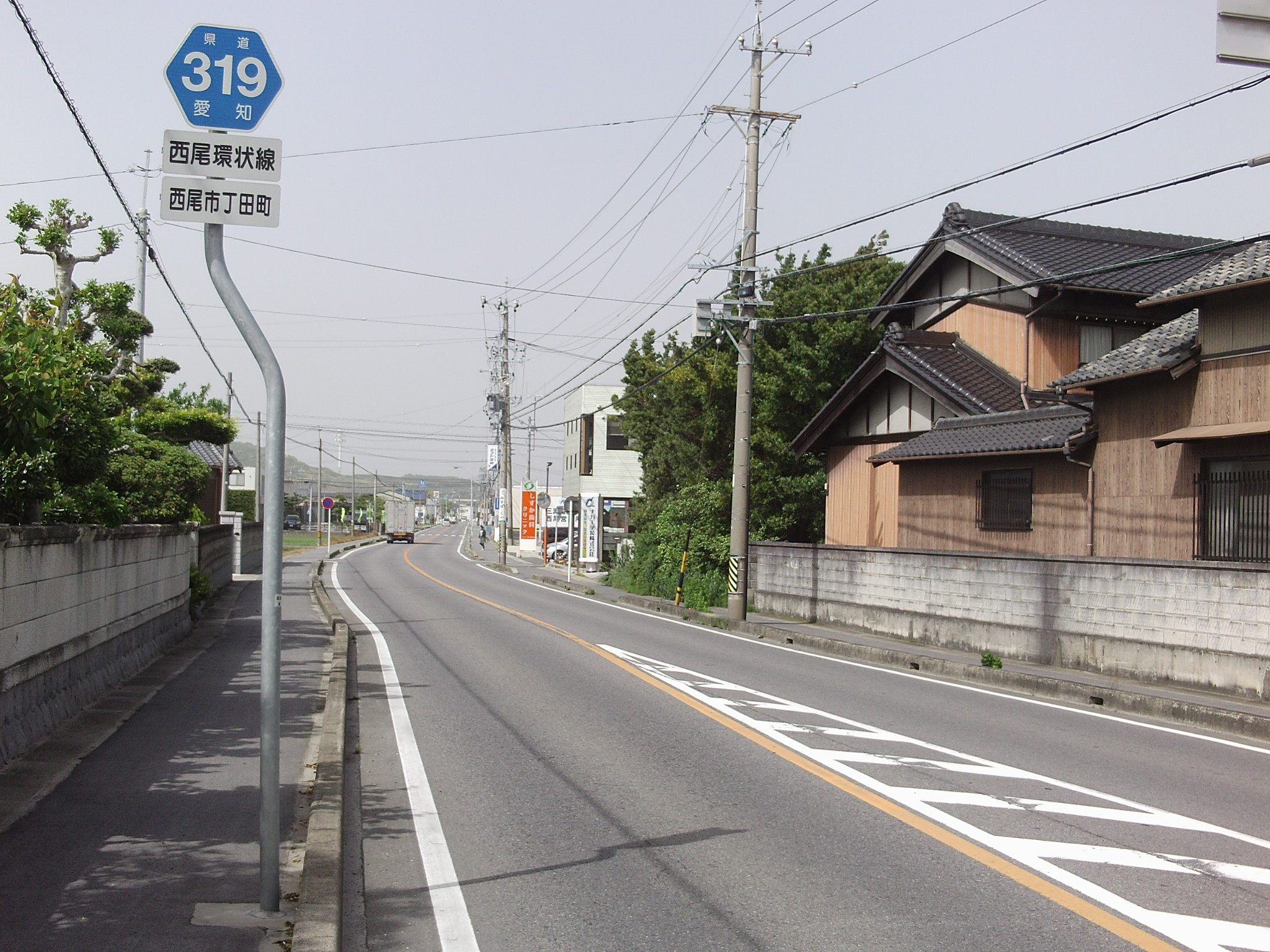 Aichi prefectural road No.319 in Chodacho, Nishio, Aichi.